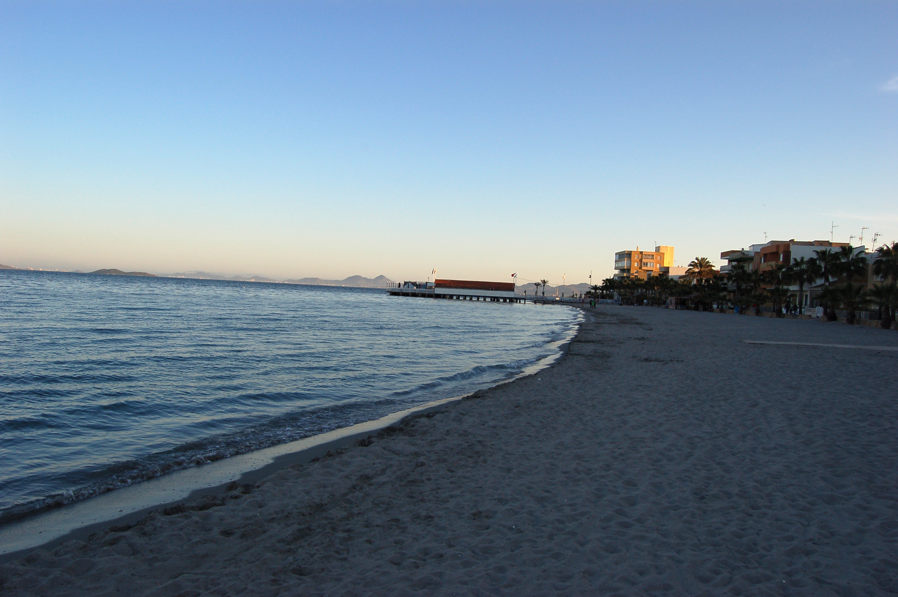 Beach in Los Alcazares,Murcia, Spain